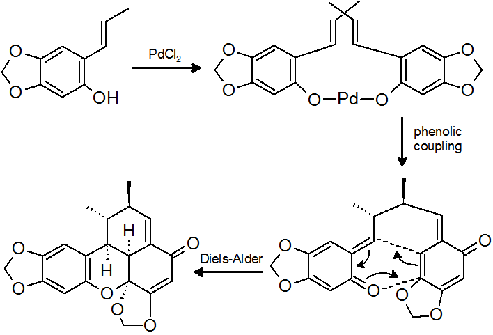 Part of Chapman's total synthesis of Carpanone